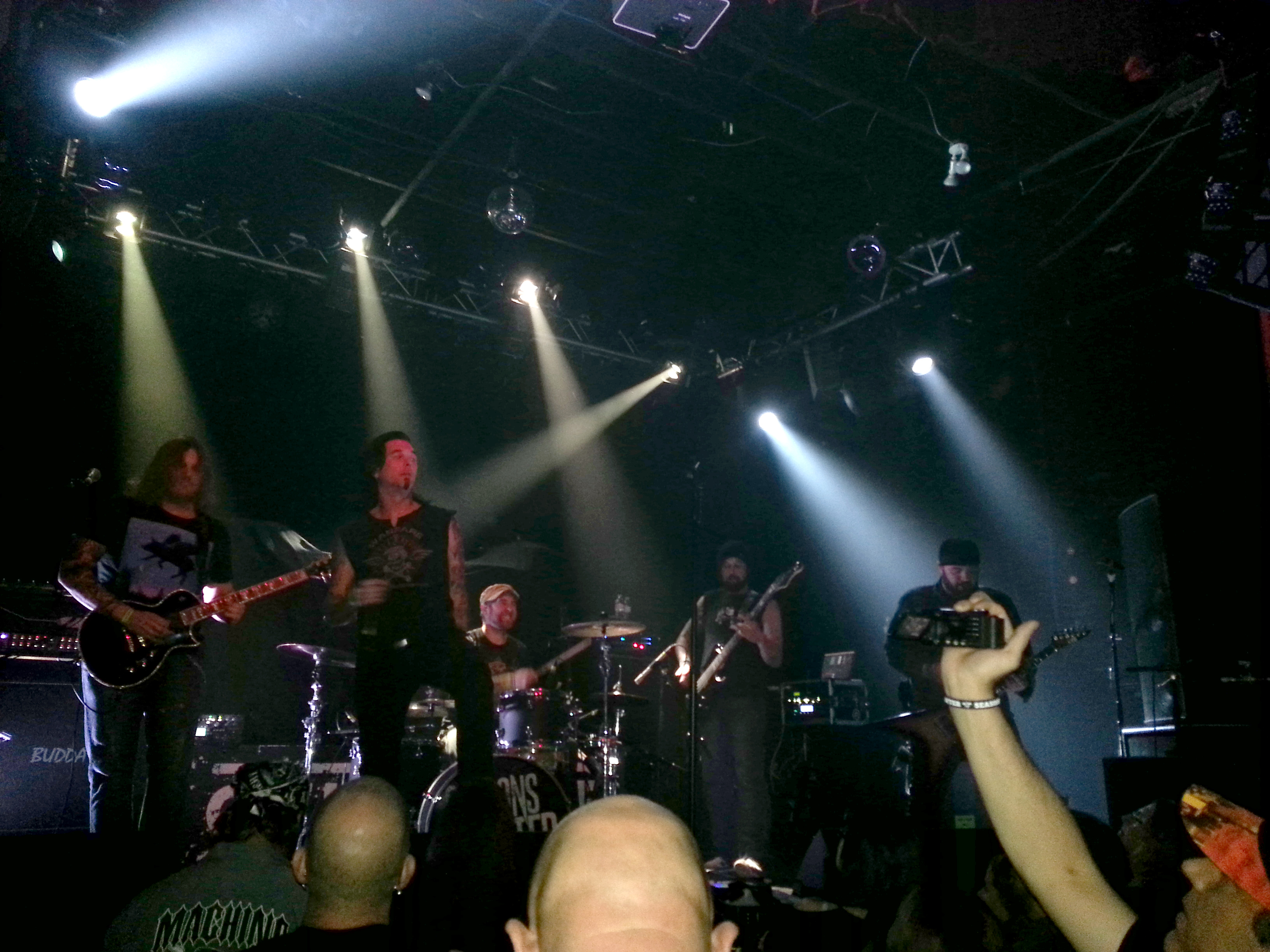 Seasons After performing in 2015